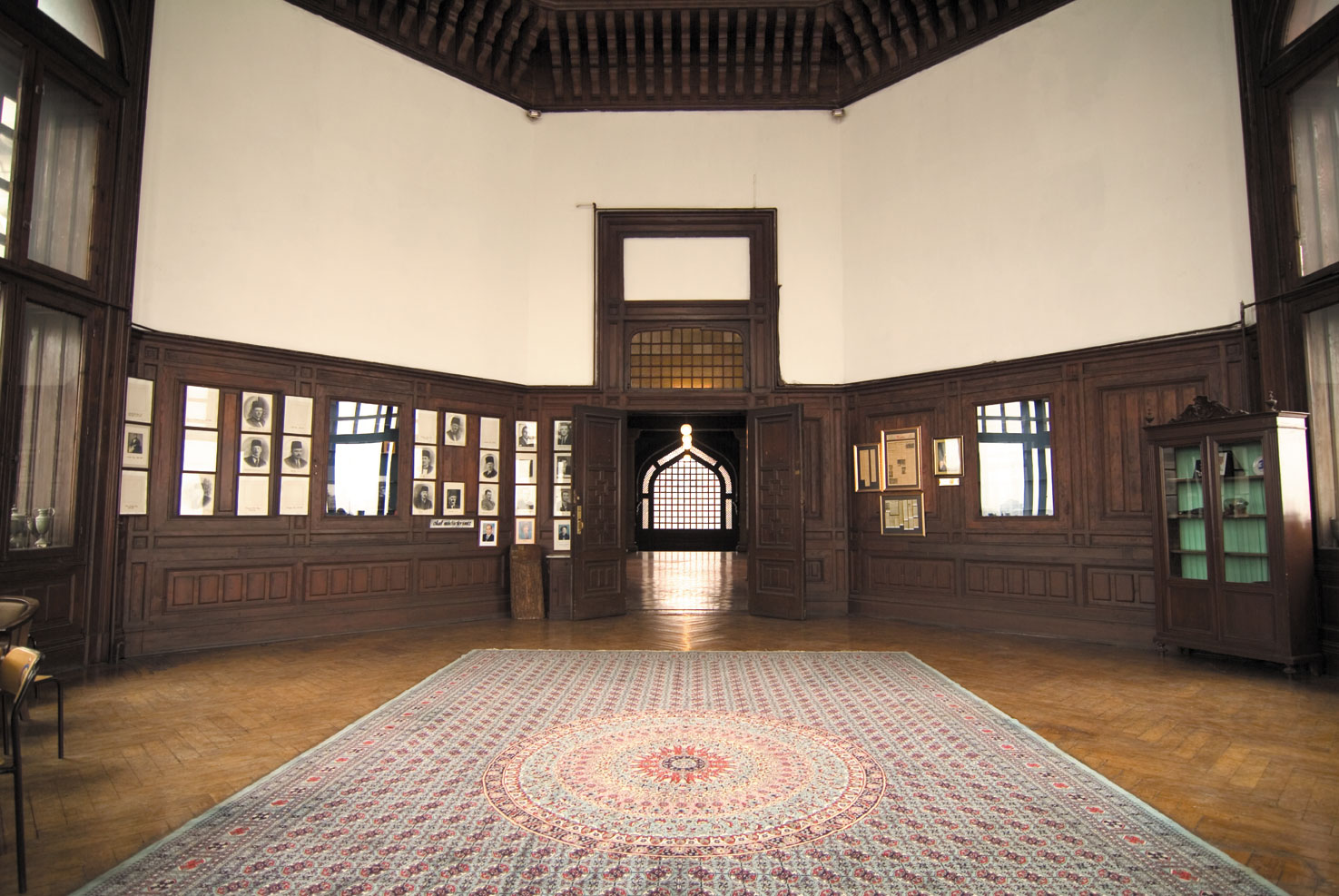 by Tansel Atasagun (IEL 87)